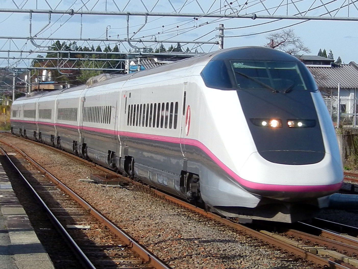 JR East E3 series shinkansen set R20 on an Akita Shinkansen Komachi service passing Ugo-Sakai Station